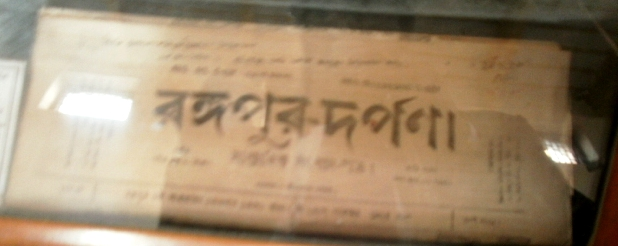 Masthead of Rangapur Darpana dated 24 November 1921